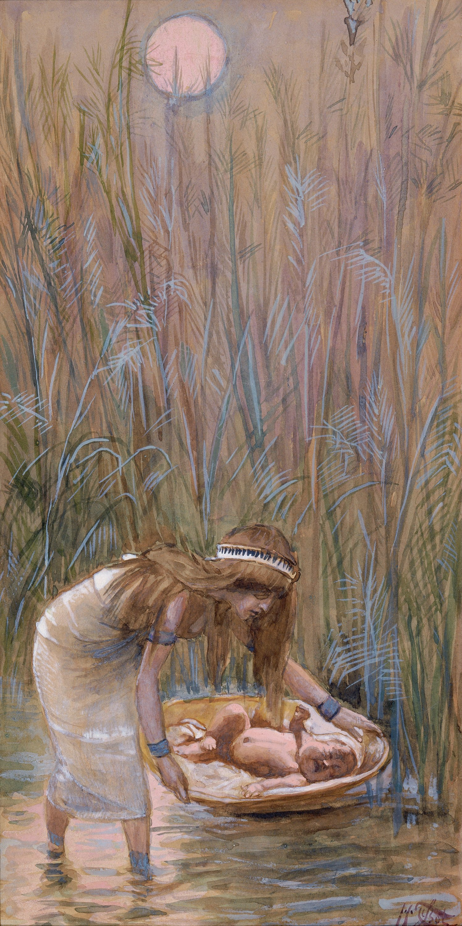 Moses Laid Amid the Flags, c. 1896-1902, by James Jacques Joseph Tissot (French, 1836-1902), gouache on board, 9 15/16 x 4 7/8 in. (25.2 x 12.4 cm), at the Jewish Museum, New York